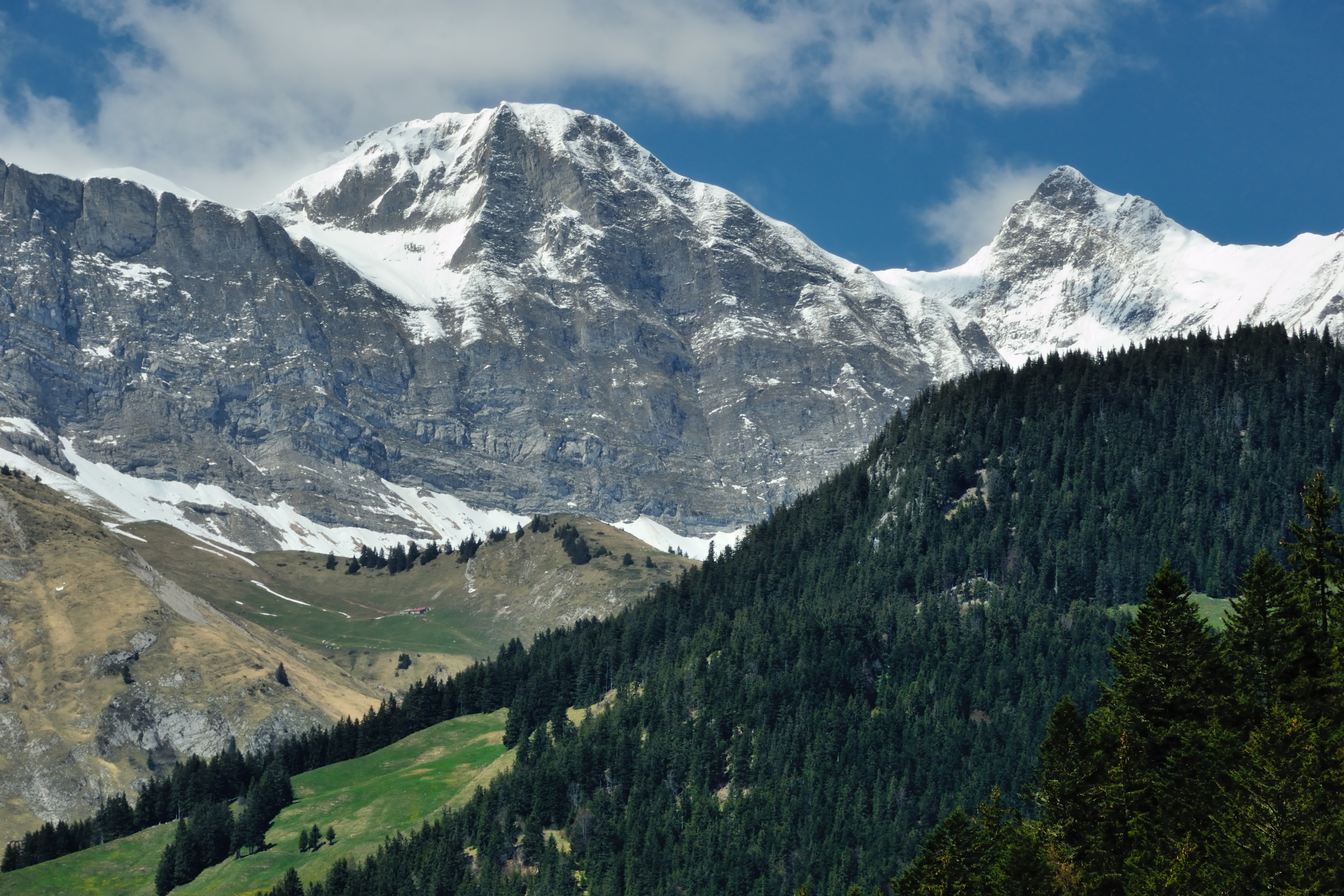 Vanil de l'Ecri, Château d'Oex (Les Leyssalets)